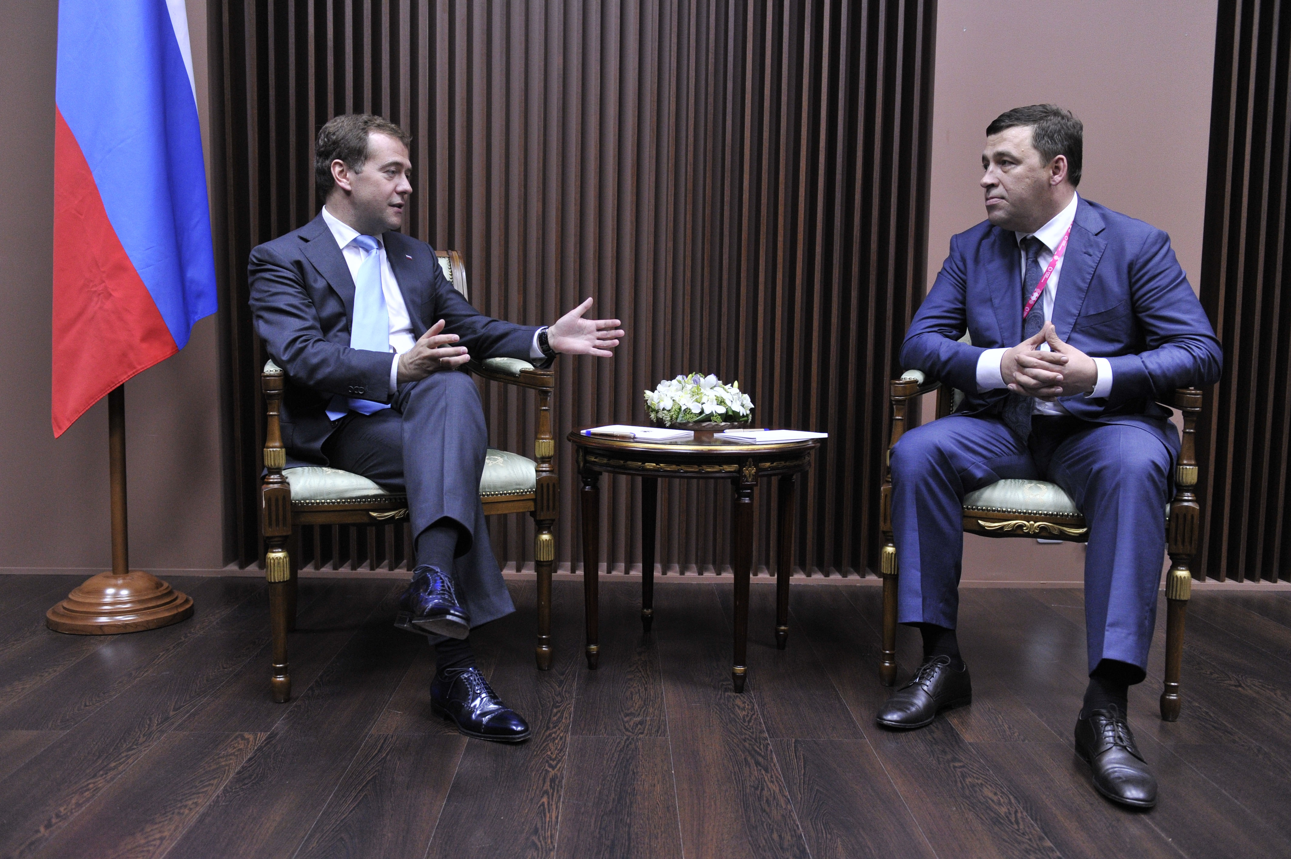 Russian Prime Minister Dmitry Medvedev and Governor of Sverdlovsk Oblast Yevgeny Kuivashev during a working meeting in Yekaterinburg.